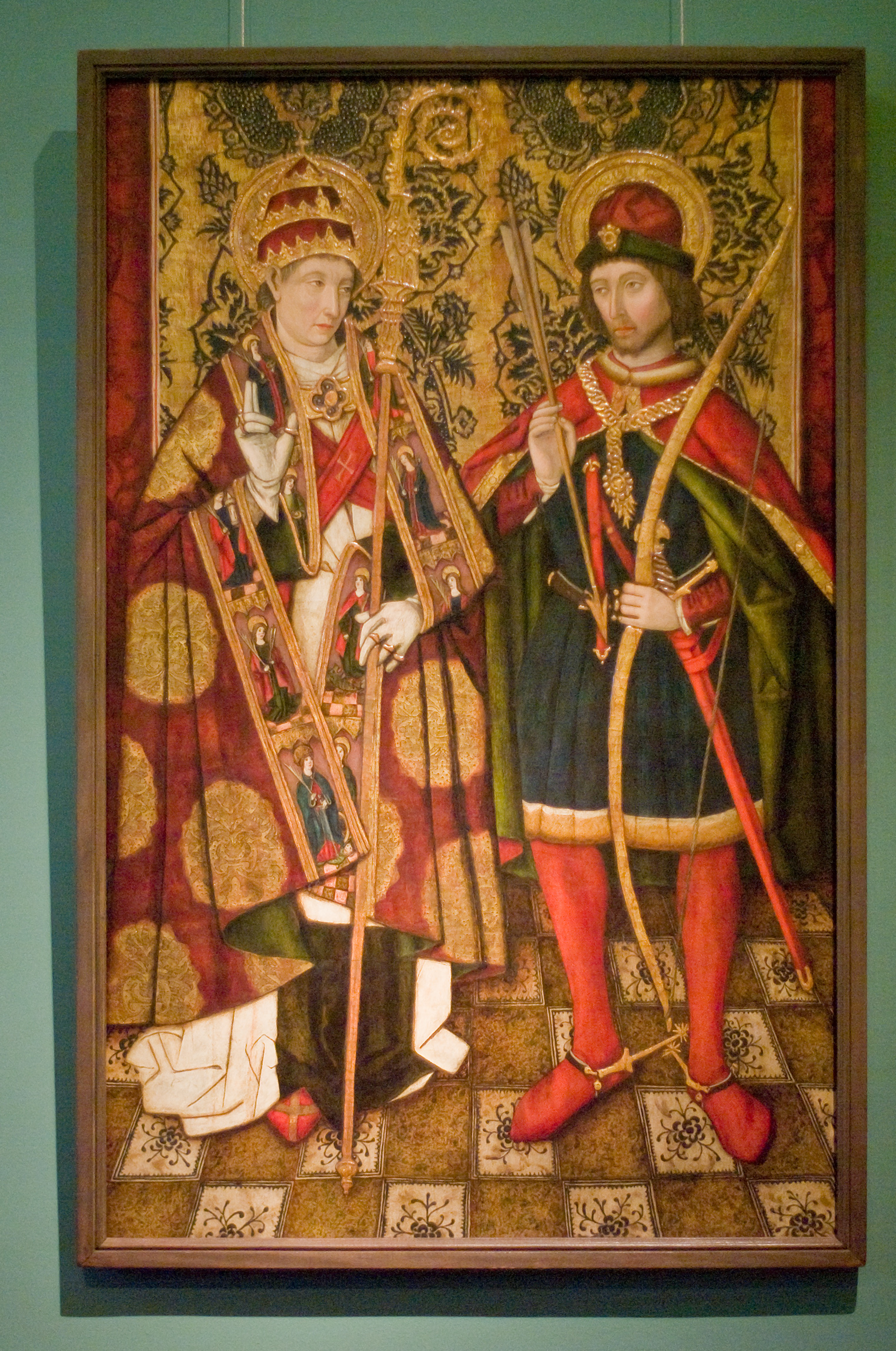 Unknown Spanish Painter, St.Sebastian and St.Fabian, Late XV century, Aragonese School, From the Shuvalov collection, Hermitage